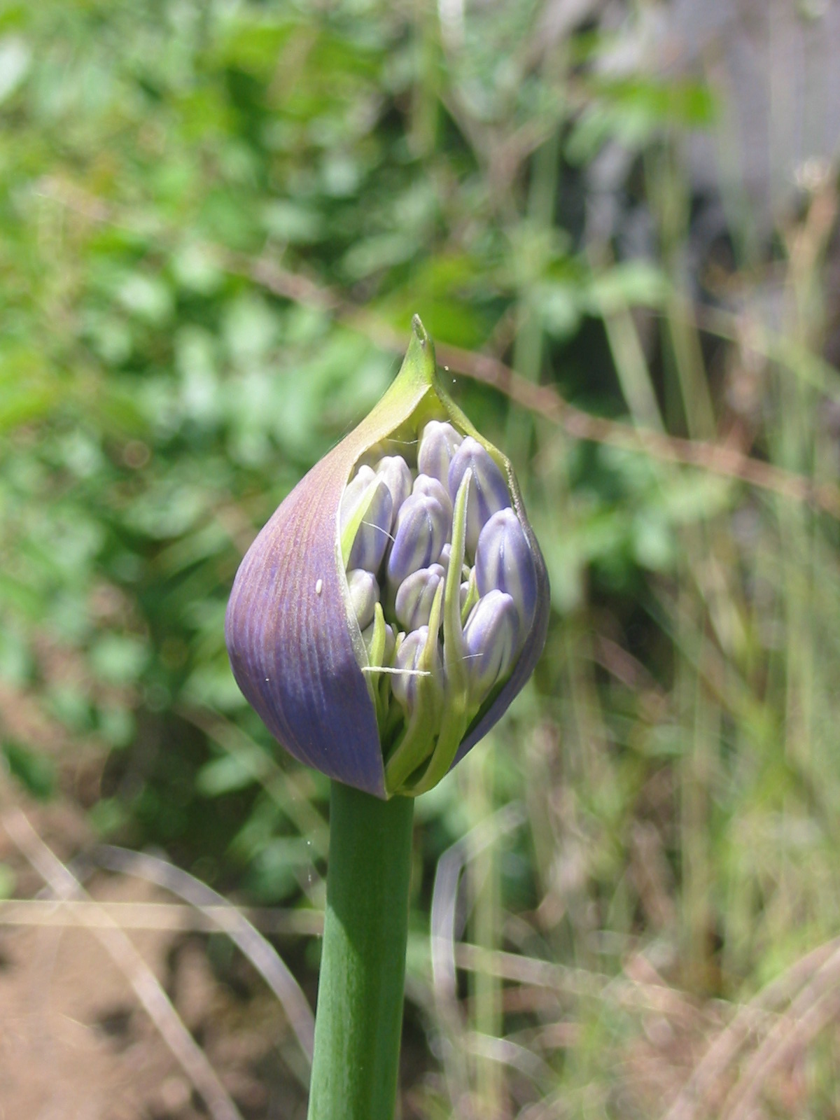 Agapanthus on Madeira